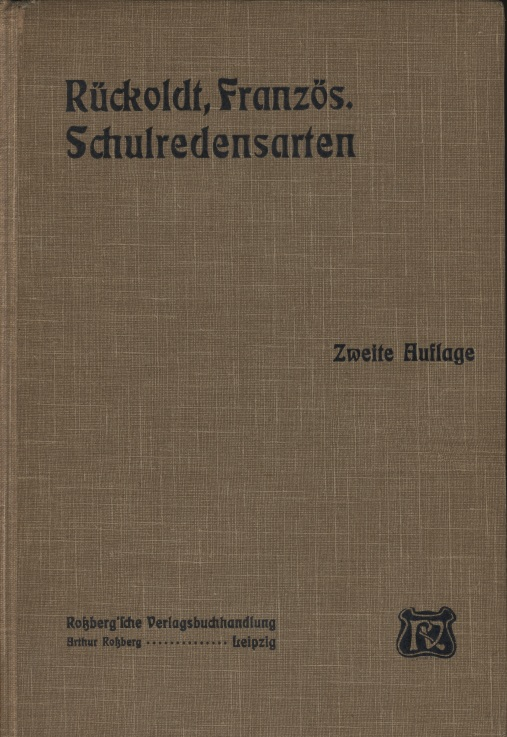 Frontcover of the second edition of Armin Rückoldt's "Französische Schulredensarten für den Sprachenunterricht", published in 1905.